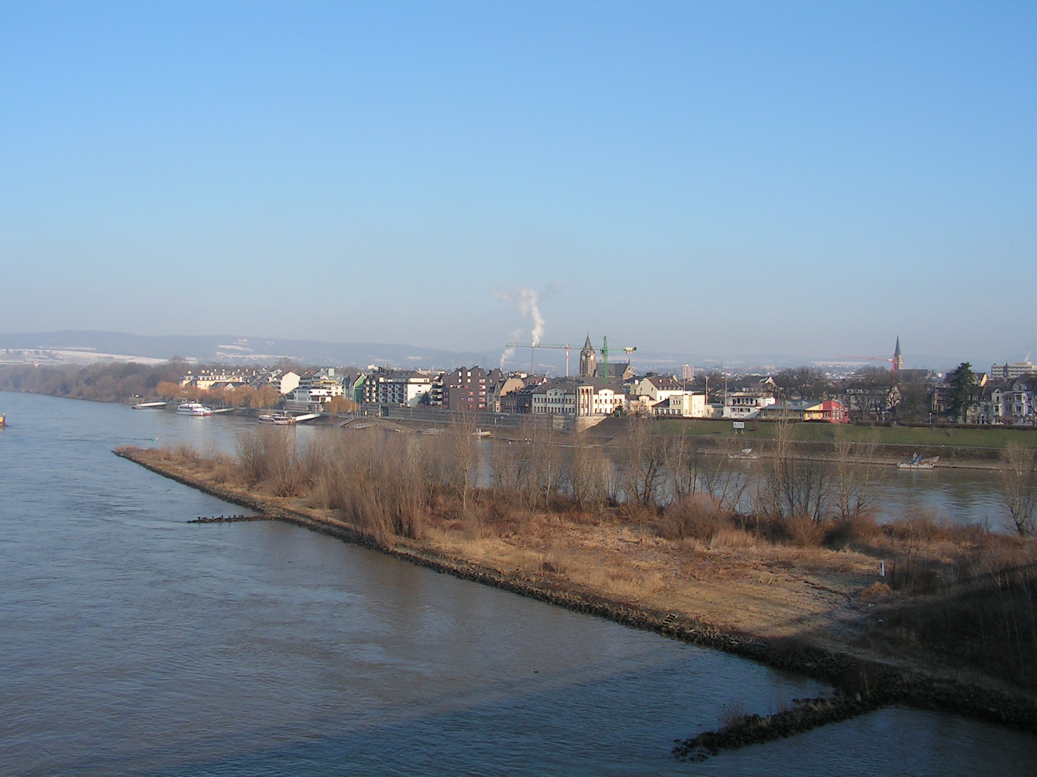 View of Neuwied, Germany from the Rhine.